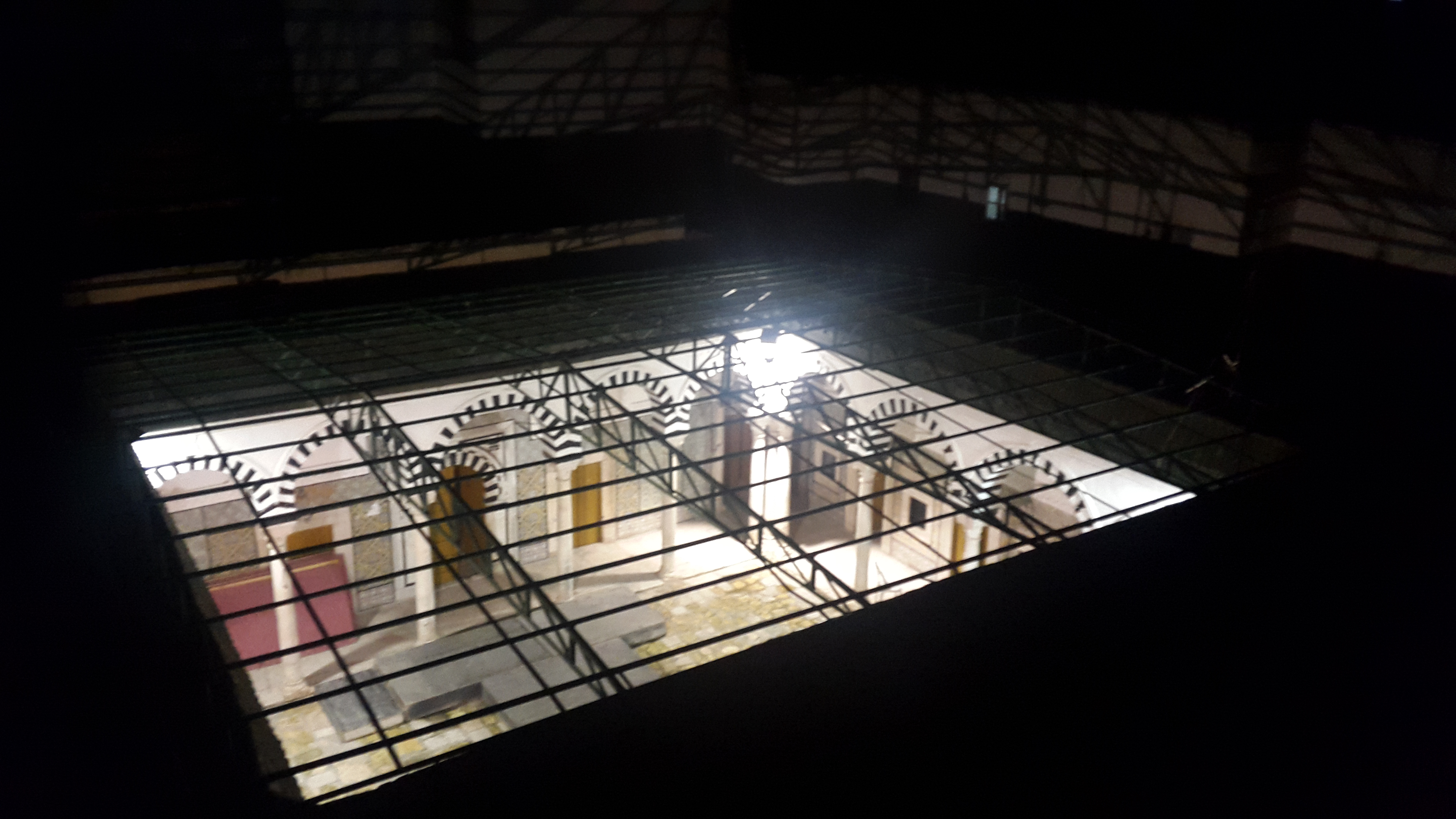 Madrassa Bir Lahjar view from above